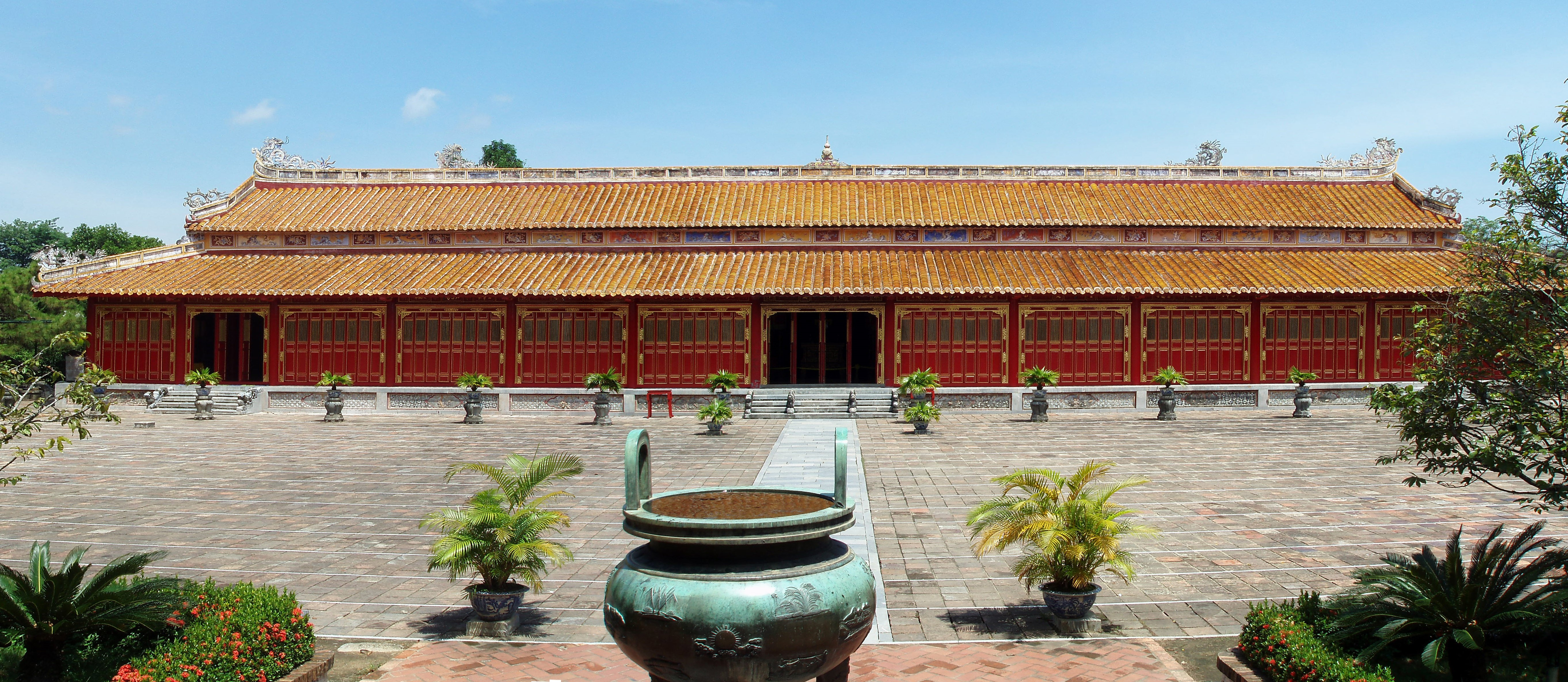 The Mieu Tempel in the Imperial City, Hue.